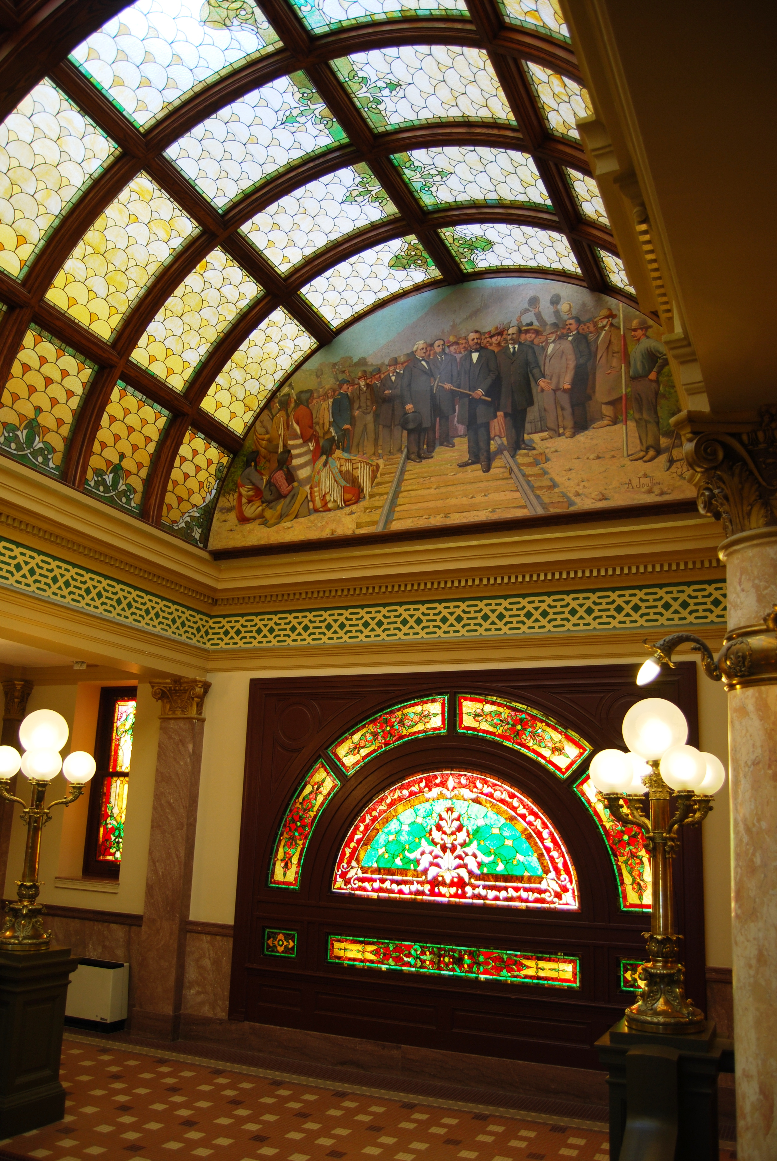 Montana State Capitol, barrel ceiling, mural, by Amedee Joullin